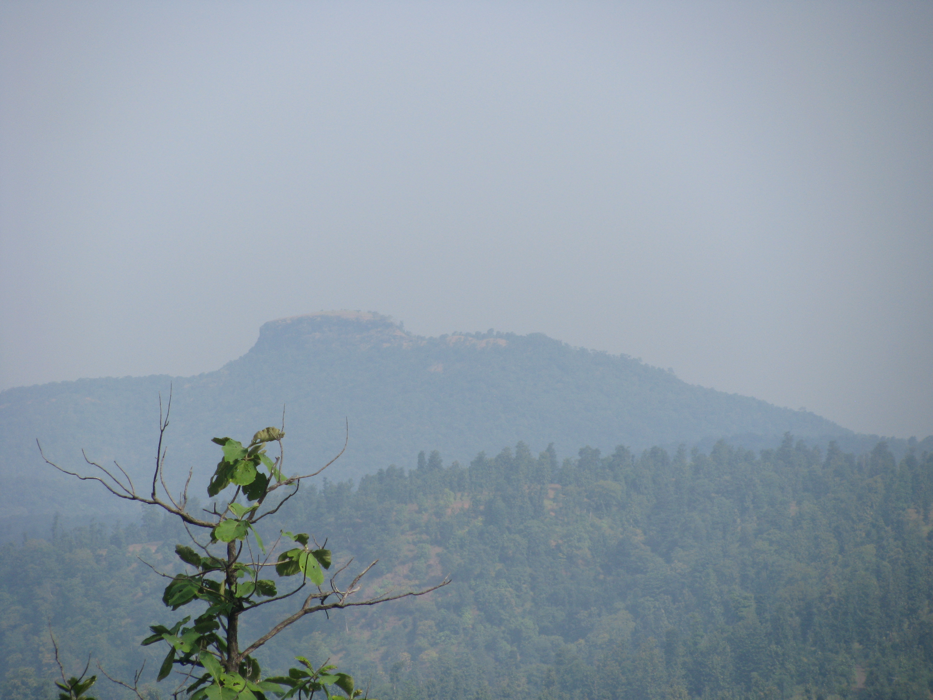 Rupgad fort (near Bardipada village, Dang district, Gujarat) from distance.